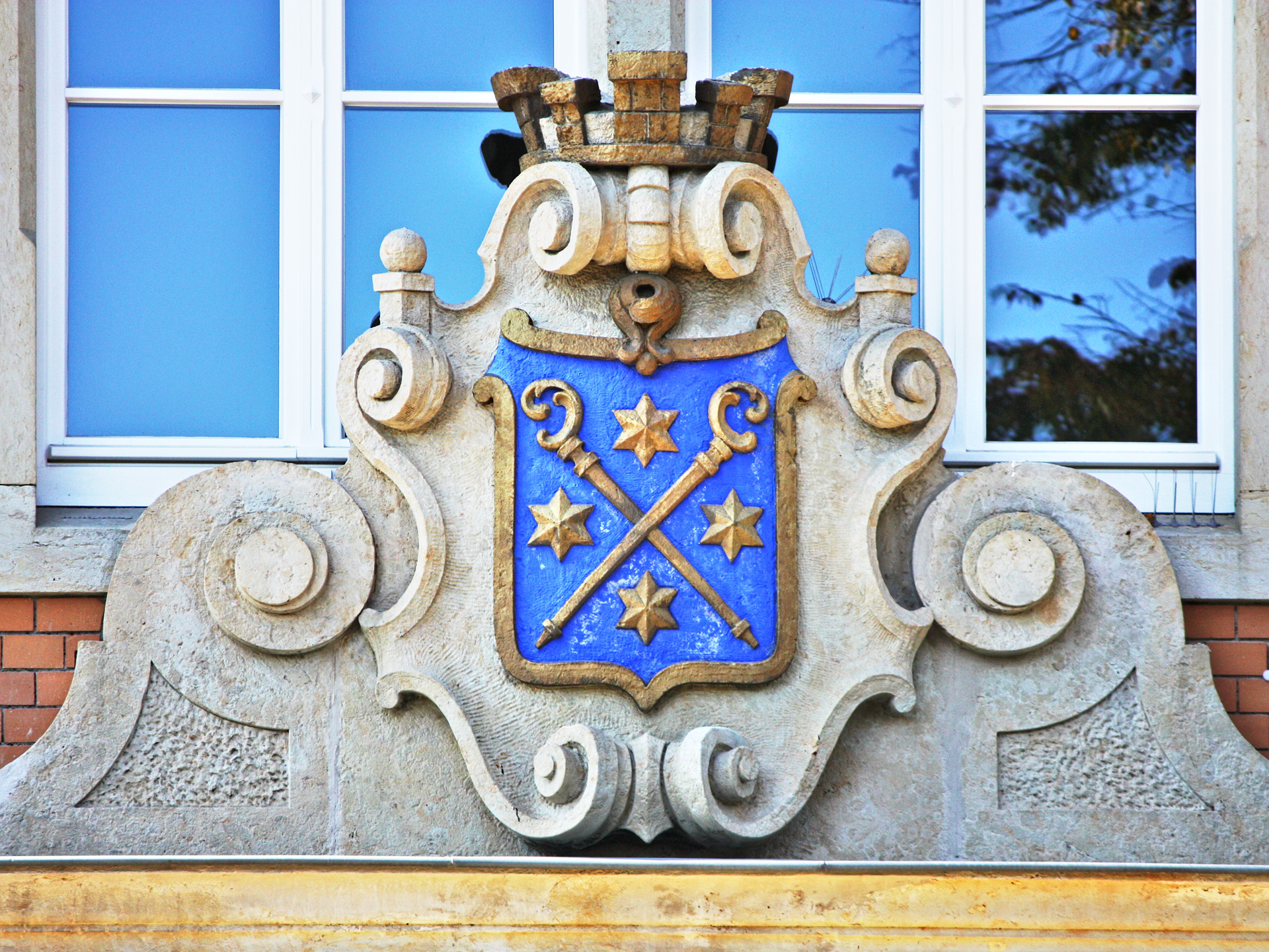 Coat of arms of Bischofswerda at the middle school in Bischofswerda in the district of Bautzen in Saxony, Germany.